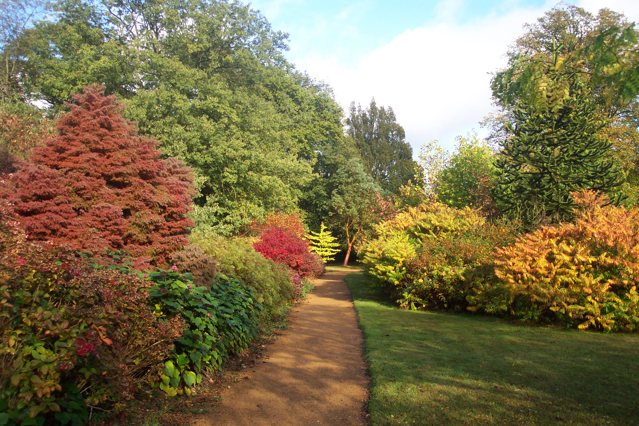 The Autumn Bank at the Harris Garden on the University of Reading's Whikeknights Campus. Seen in early October. For more information see the Wikipedia article Harris Garden.